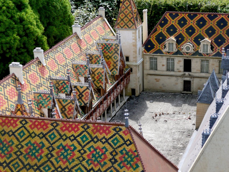 The Hospices de Beaune is a charitable instutution in Beaune, France, founded in 1443 by Nicolas Rolin, chancellor of Burgundy as a hospital for the poor and needy. Site of charity Burgundy wine auction is held in November every year